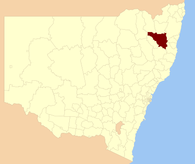 Locator map for Armidale Regional Council in NSW